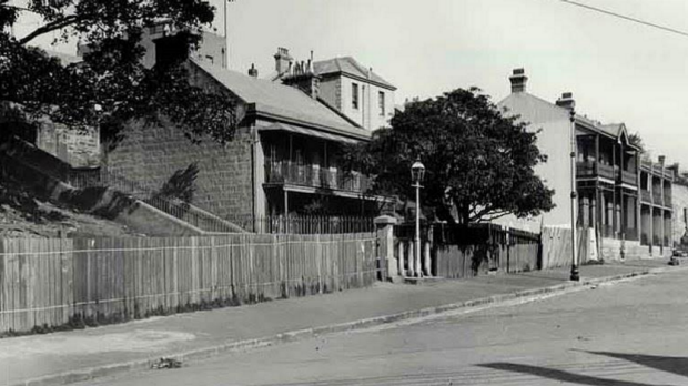 Picture of Caraher's Stairs and Darling House